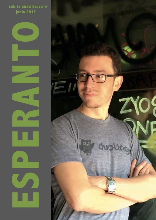 Cover page of “Esperanto sub la Suda Kruco”, June 2015